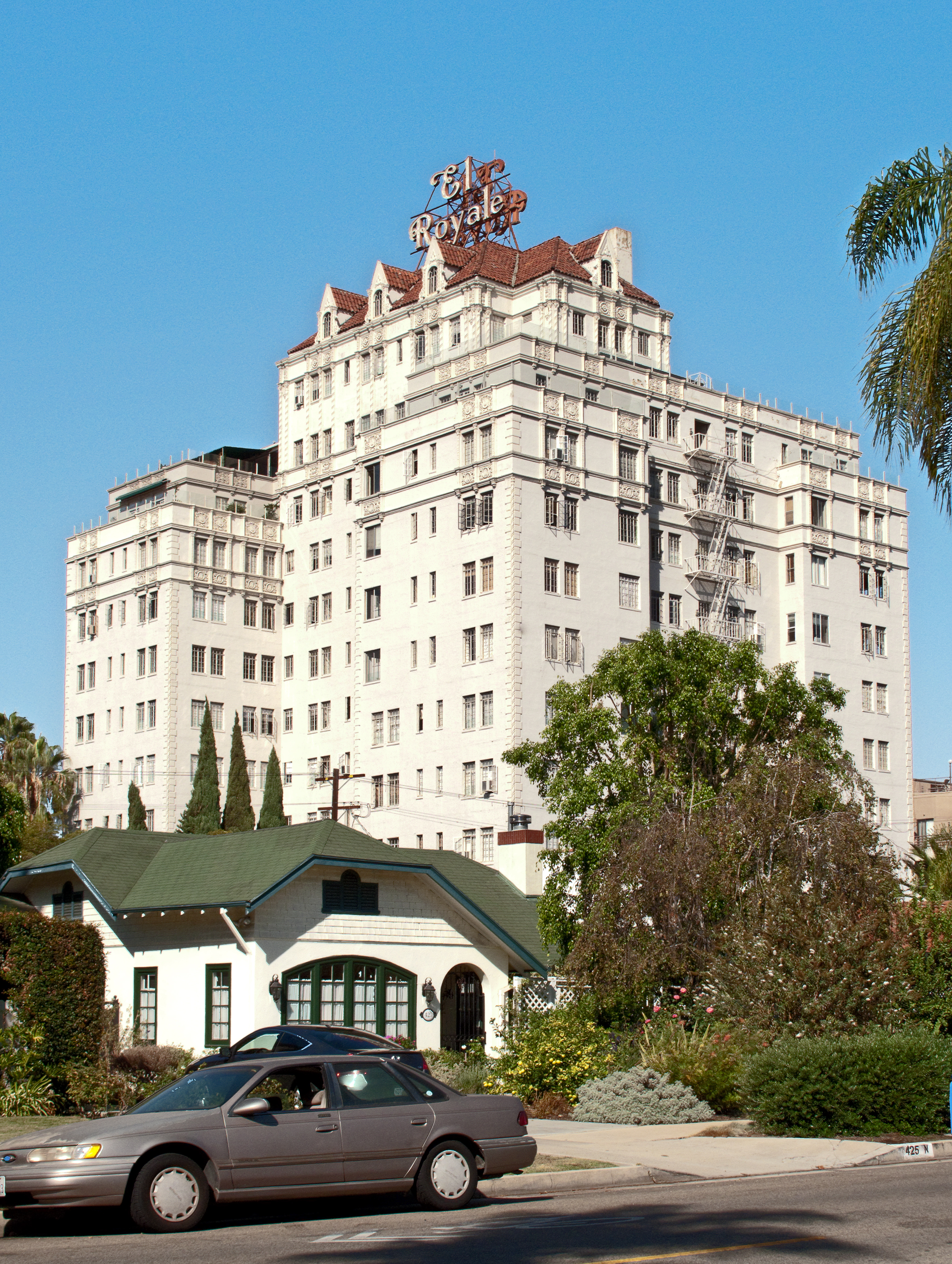 The back and side of the El Royale Apartments, 450 N. Rossmore Ave., in the Hancock Park neighborhood of Los Angeles, California. Los Angeles Historic-Cultural Monument #309.